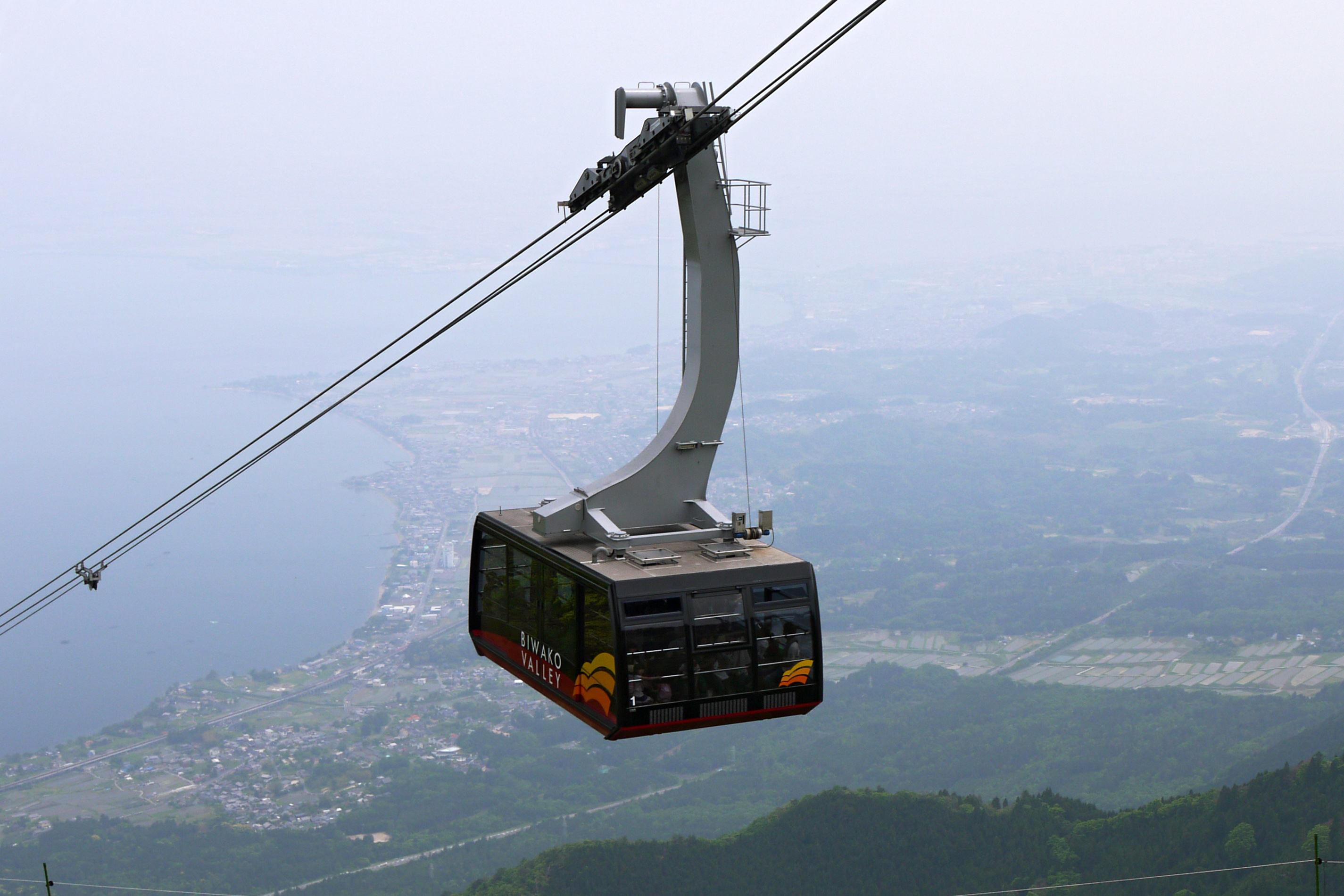 Biwako Valley in Otsu, Shiga prefecture, Japan.